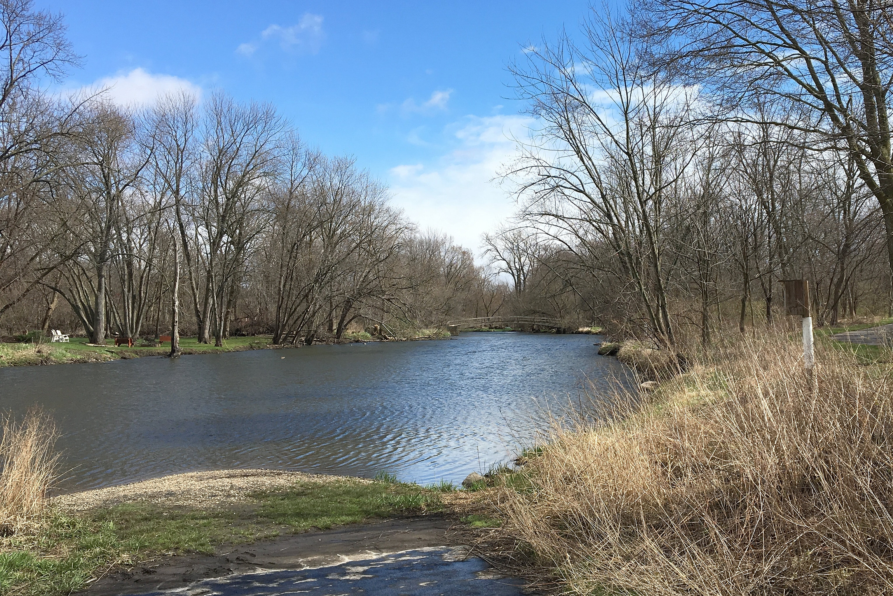 DuPage River at Naperville, Illinois.